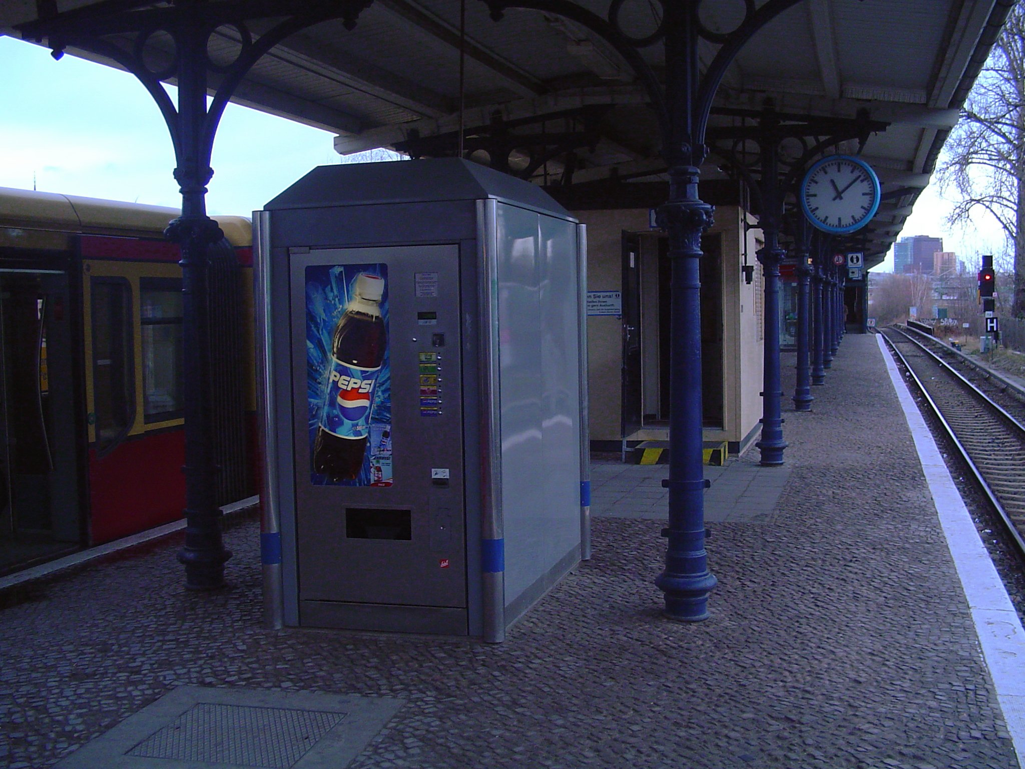 S-Bahn station Yorckstraße (platform with dispatcher's booth), view from south